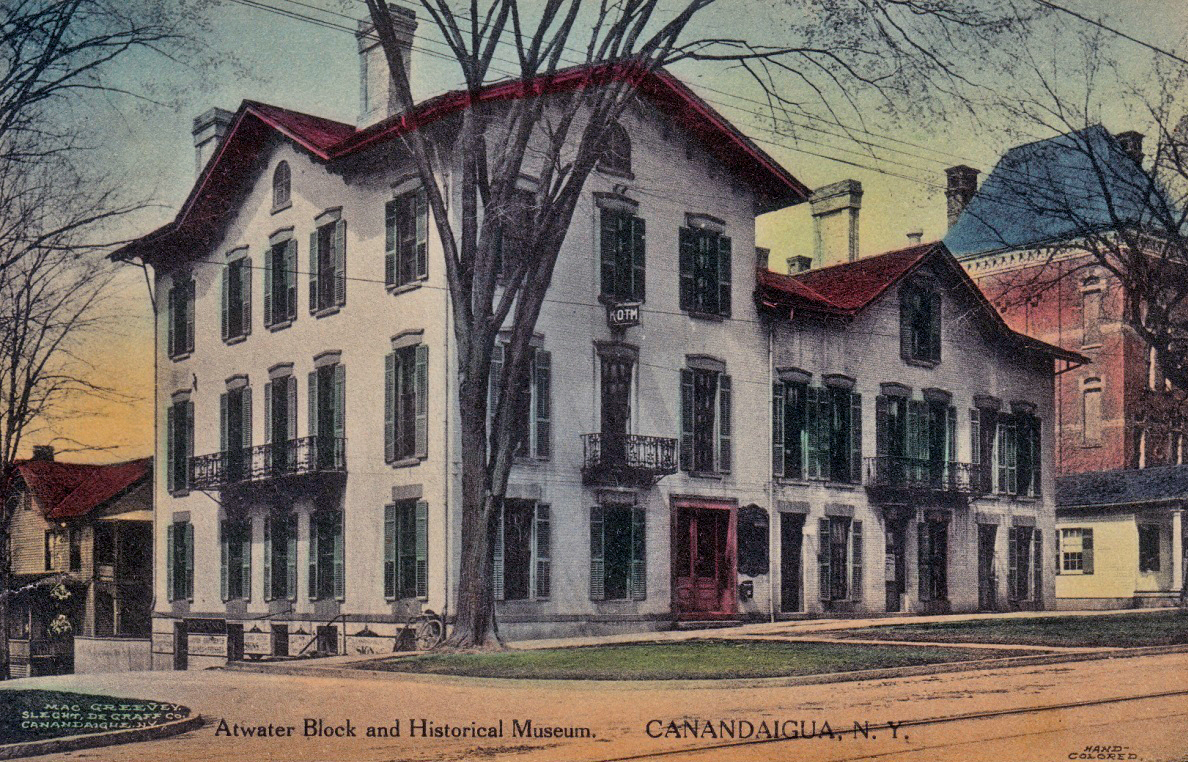 Hand-colored postcard showing the Atwater Block along North Main Street in Canandaigua, NY, USA. It was demolished to make way for a new post office building.